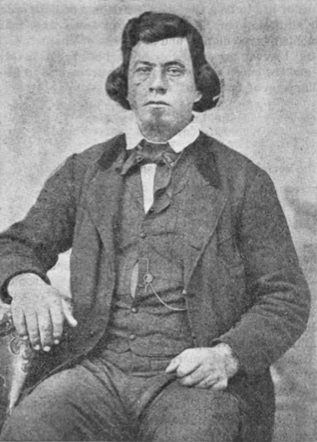 Charles Bluejacket (1816-1897), Shawnee, of Kansas, USA